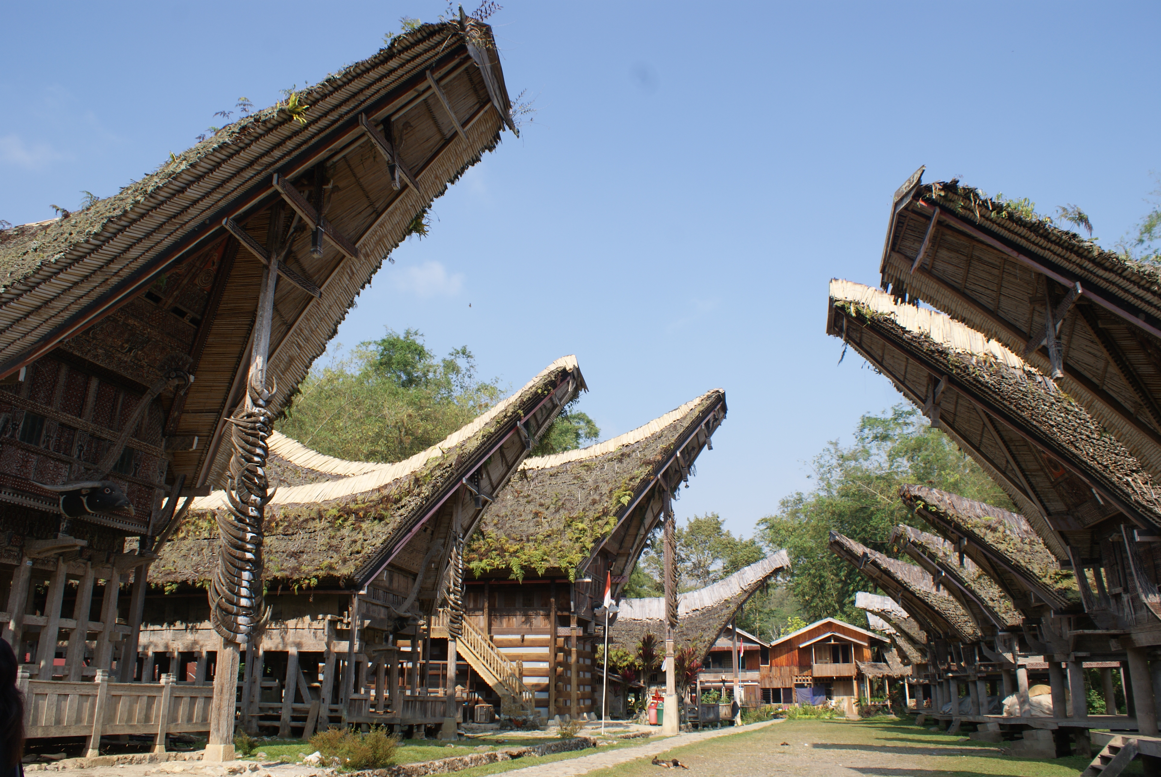 Traditional Toraja House in Kete Kesu Village, Tana Toraja - South Sulawesi, Indonesia (2011).